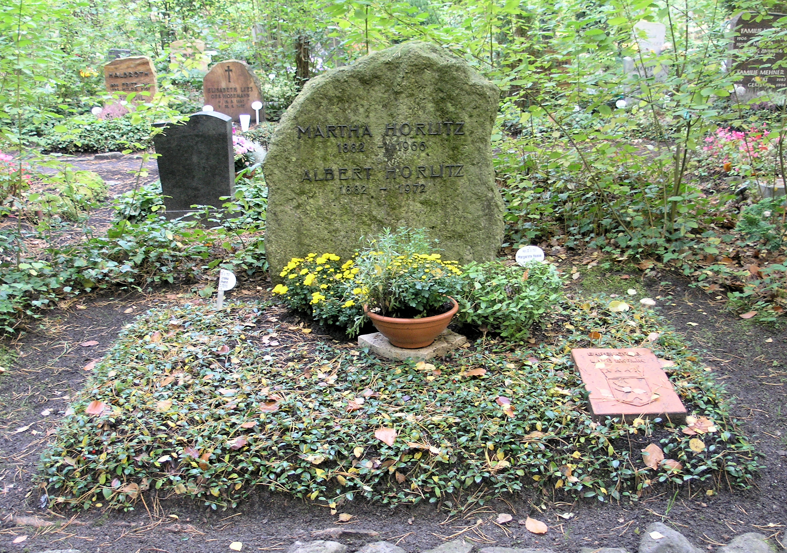 "Ehrengrab" (grave of honor), Albert Horlitz, Potsdamer Chaussee 75, Berlin-Nikolassee, Germany Koordinate:52°25′23″N 13°12′38″E / 52.42306°N 13.21056°E